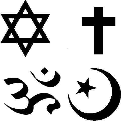 4 religious Symbols for use in Indian Language Wikipedias